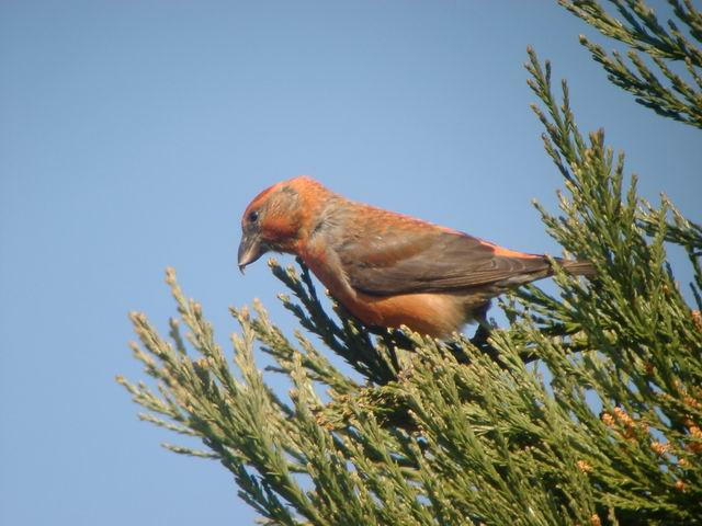 Common Crossbill (Loxia curvirostra), 4 km from Brandon, Suffolk, Great Britain. Coming down to a small pond. March 2003 was very dry so this became a valuable source of water for birds, especially seed-eating species as they need to drink frequently due to their dry food.